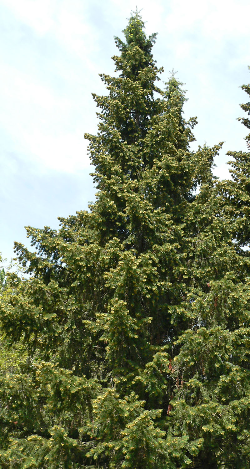 Photo of Abies bracteata at the Regional Parks Botanic Garden, Berkeley, California